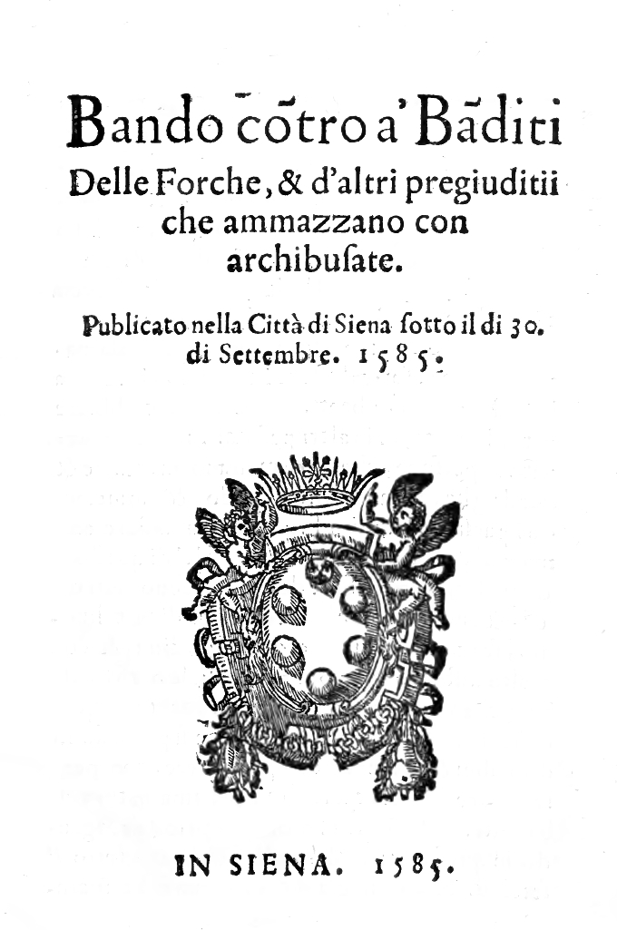 Cover of law against brigands